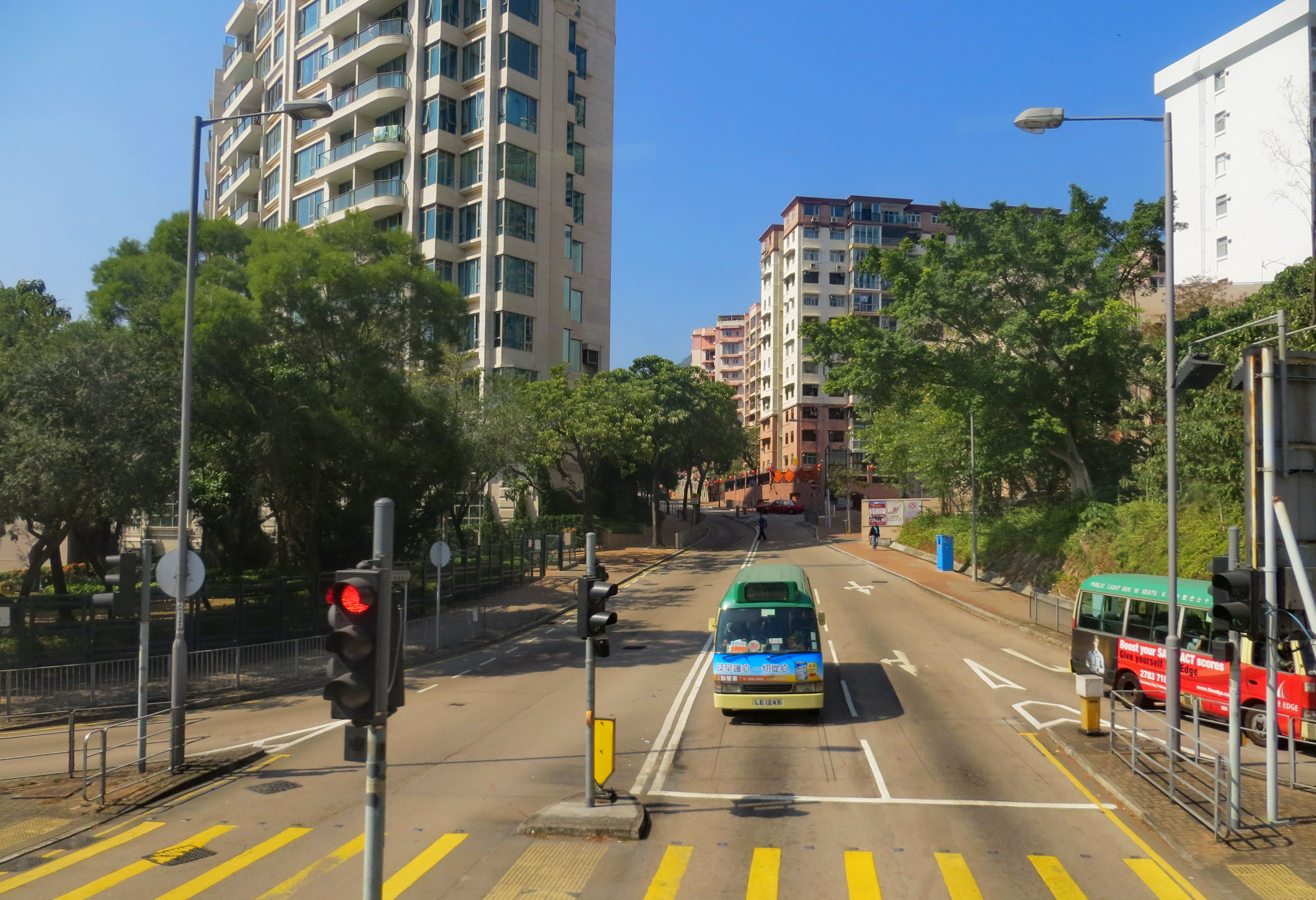 Broadcast Drive, Kowloon, Hong Kong.